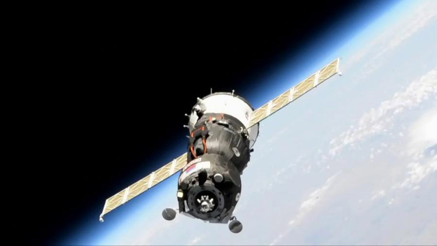 The unpiloted Soyuz MS-14 spacecraft is pictured near the International Space Station.